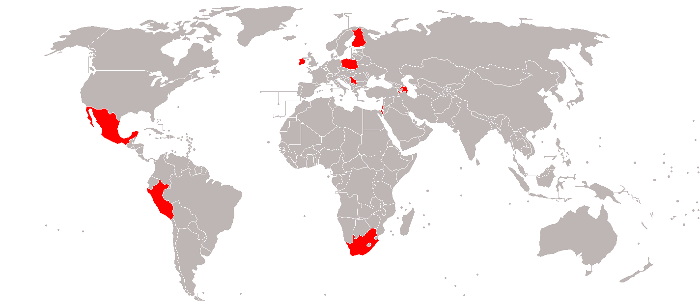 Operators of Aeronautics Orbiter colored in red.